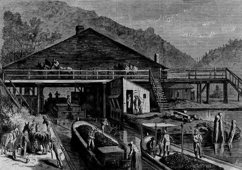 Down Among the Coal Mines -- Weighing the Cargoes in the Weigh-Lock on the Lehigh Canal, a wood engraving by Paul Frenzeny published in Harper's Weekly, February 1873. The canal was located a half mile south of Mauch Chunk (now Jim Thorpe, Pennsylvania).